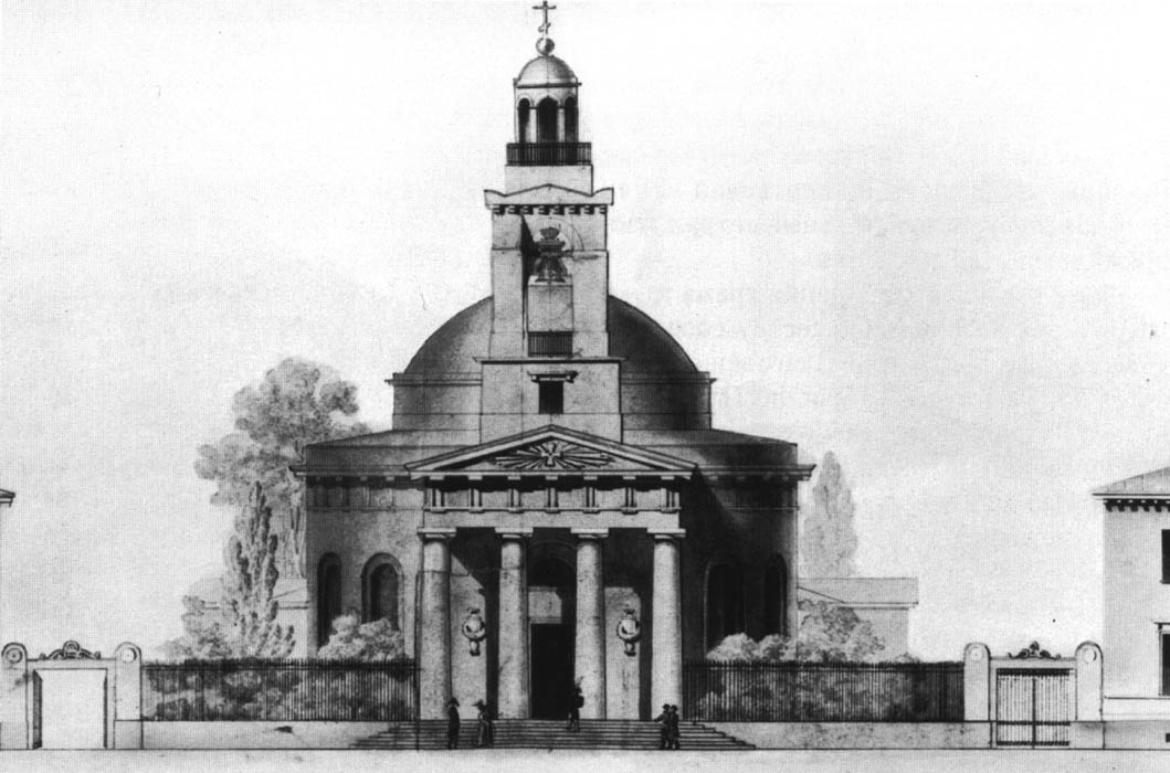 Saint Vladimir Church at Orlovo-Novosiltsevskoe charitable institution. Project view. Builded in 1834-38, closed as 17 Mars 1932 and soon exploded.